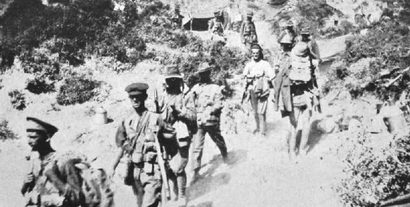 Remnants of the Auckland Mounyed Rifles Regiment "Coming Out" after the Battle of Hill 60